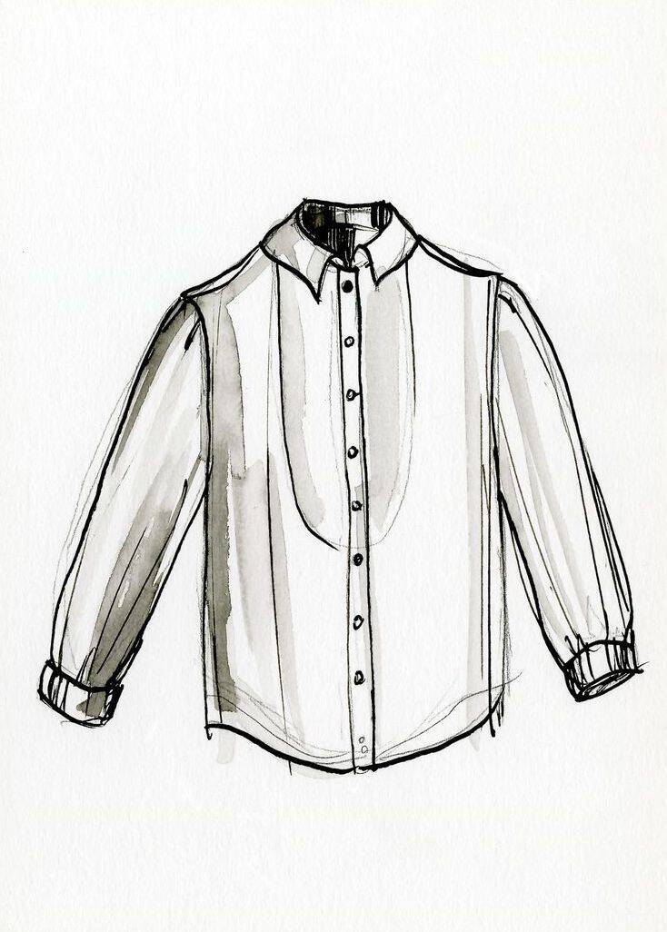 The description of the concept in this drawing is: Main garments for the upper body, usually lightweight and loose-fitting, made with or without sleeves and worn over or tucked in the waistband of a skirt or trousers, especially by workmen, peasants and artists. Also, women's garments cut in the style of a man's classic, tailored-cut shirt, having a notch collar, collar band, front placket opening, and usually long sleeves with cuffs (AAT)